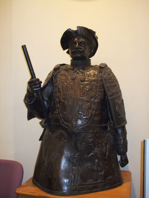 Bust of Sir Iain Moncrieffe of that Ilk (1919 - 1985) This striking bust in the entrance to Register House in Edinburgh is of Sir Iain Moncrieffe of that Ilk in the uniform of Albany Herald at the court of the Lord Lyon.